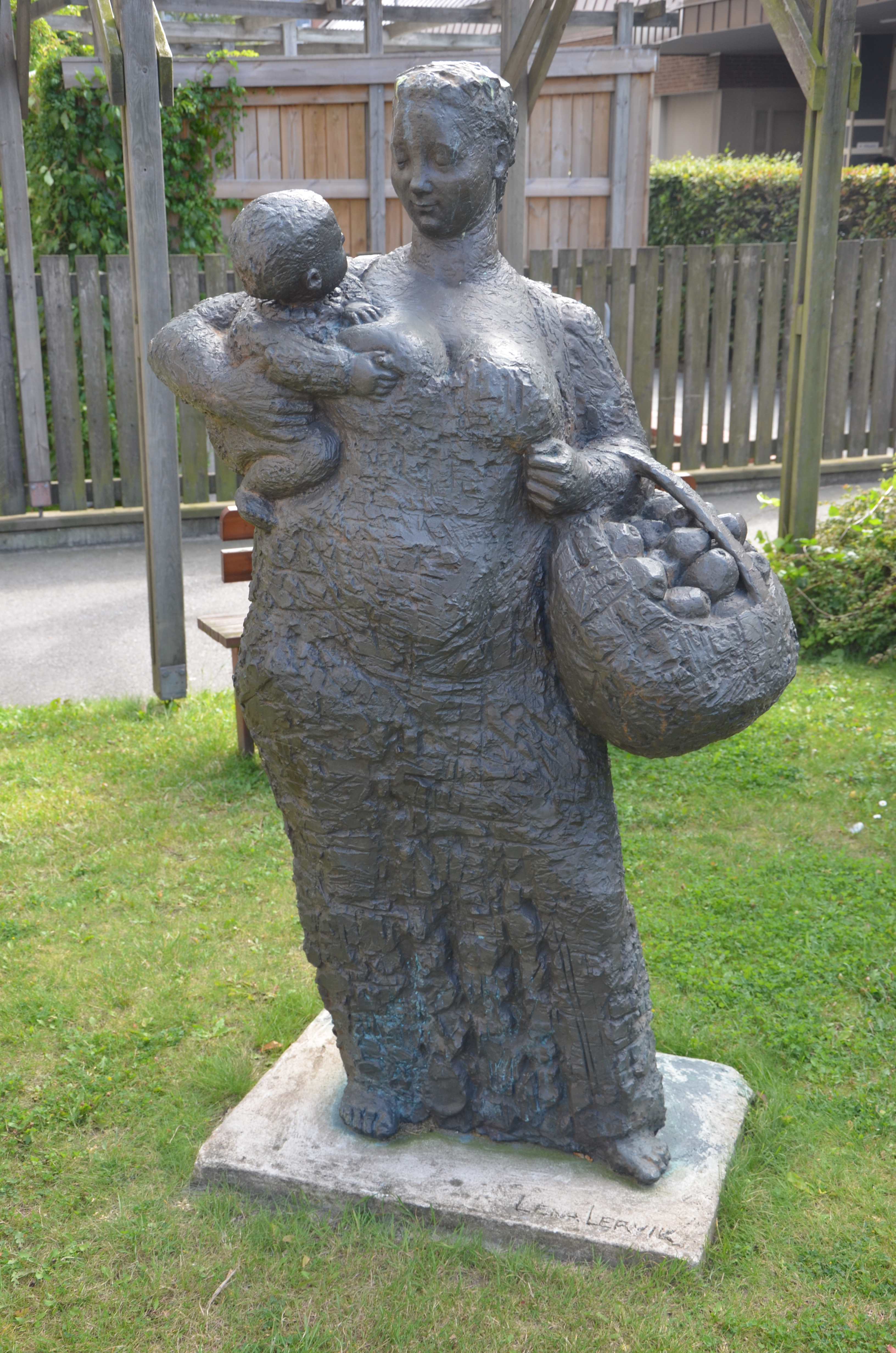 Lena Lervik's Mor och barn, utanför Kvinnokliniken, mitt emot Onkologiska klinike, Universitetssjukhuset, Lund